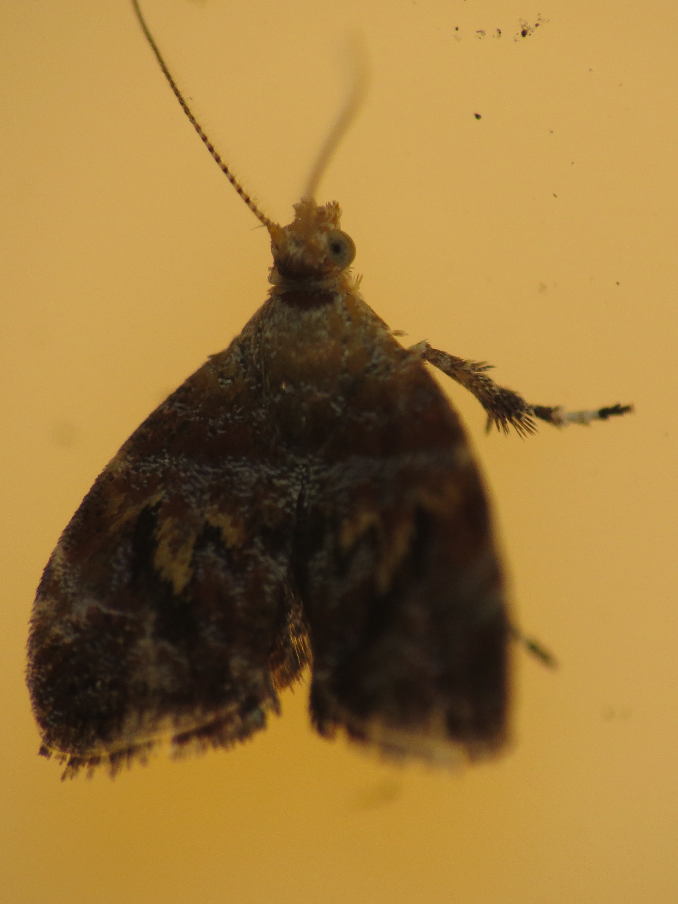 Choreutis emplecta (Turner, 1941), Cairns, QLD, 19/20 November 2014